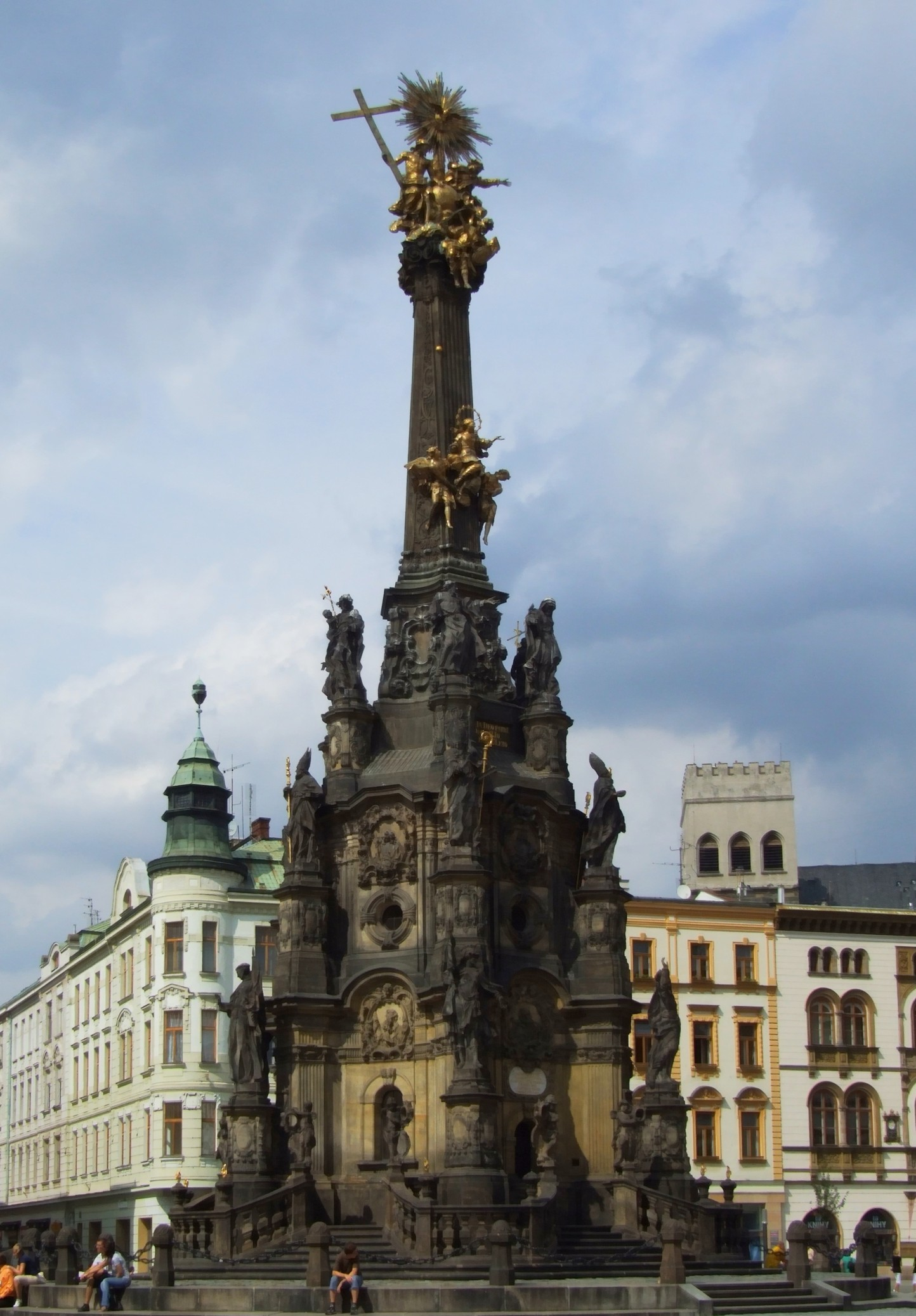 Holy Trinity Column in Olomouc (Olmütz), Moravia